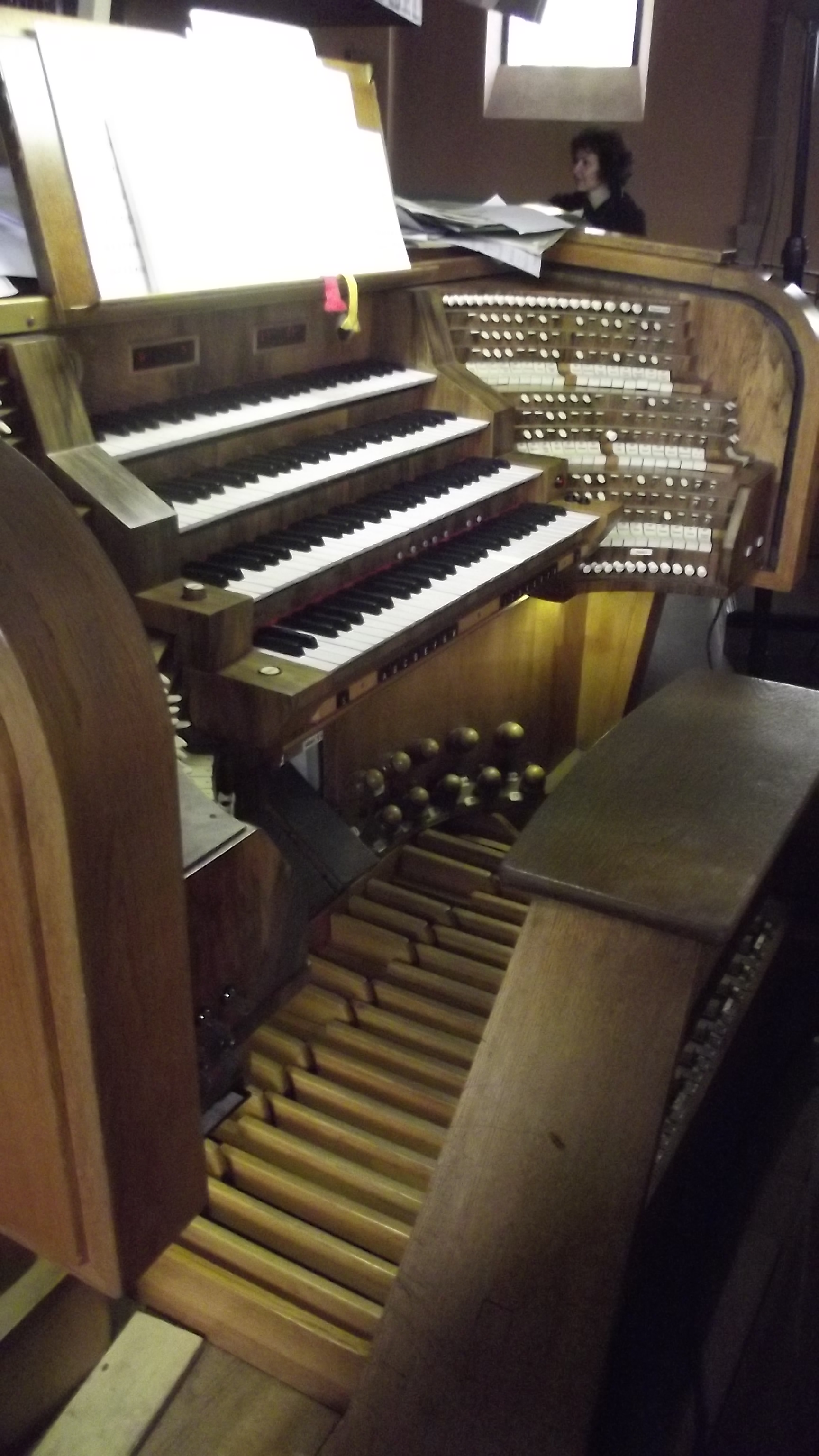 console of the Klais-Organ of the Christkönig-Church Saarbrücken, Saarland, Germany. Saarland's biggest pipe-organ